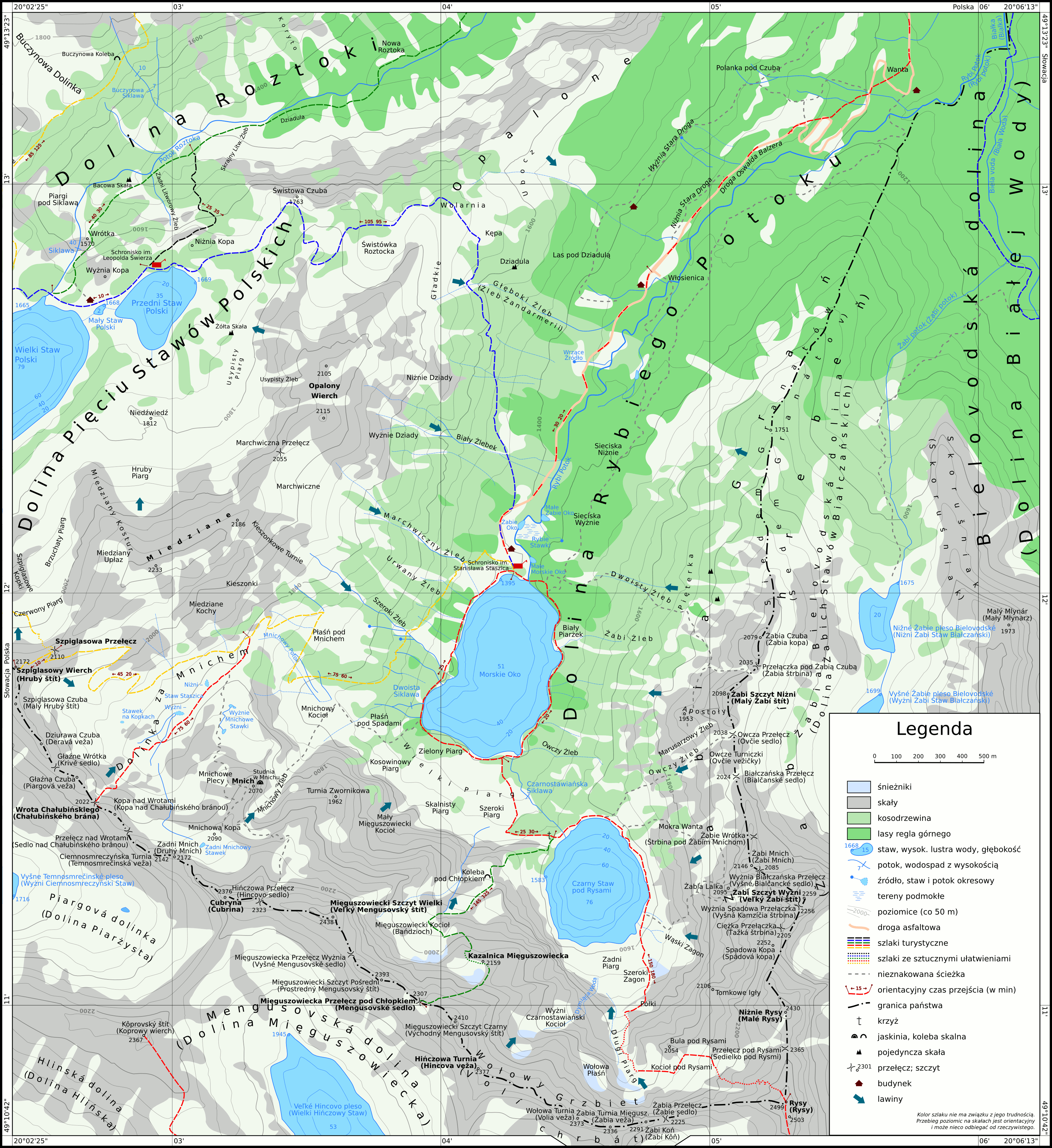 Map of Rybiego Potoku Valley, Tatra National Park, Poland